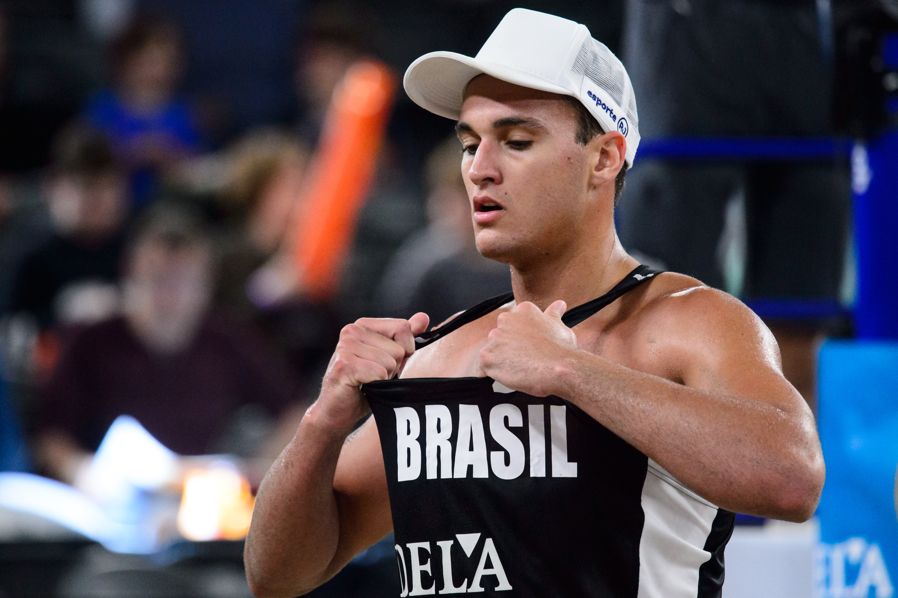 George Wanderley from Brazil